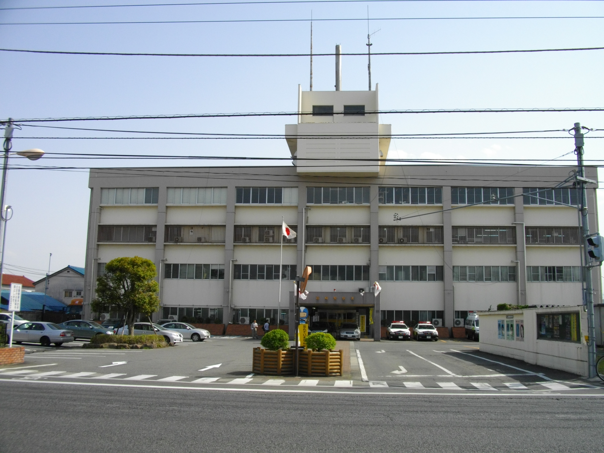 Takasaki Police Station